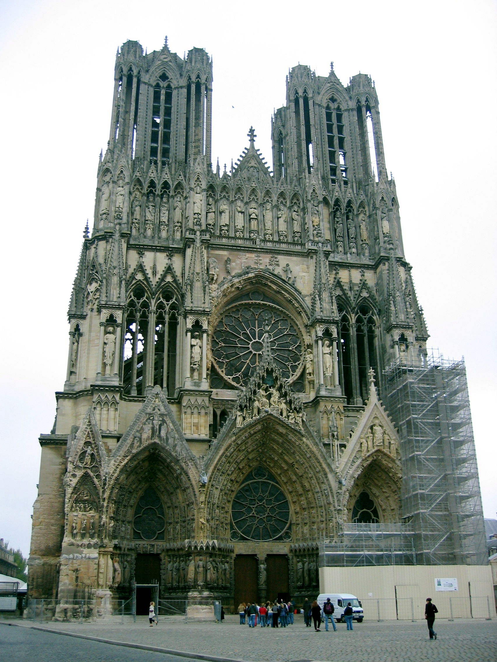 Reims cathedral